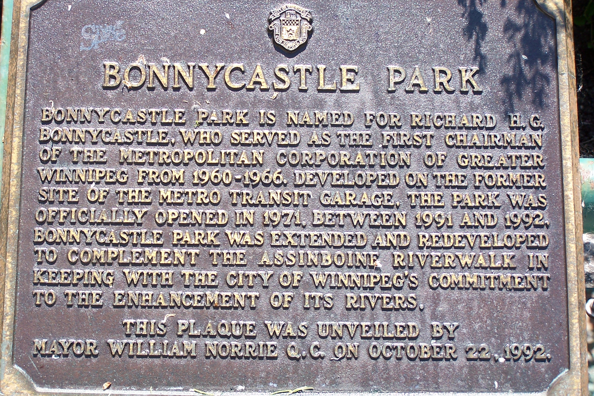 BONNYCASTLE PARK Bonnycastle Park is named for Richard H. G. Bonnycastle, who served as the first Chairman of the Metropolitan Corporation of Greater Winnipeg from 1960-1966. Developed on the former site of the Metro Transit Garage, the Park was officially opened in 1971. Between 1991 and 1992, Bonnycastle Park was extended and redeveloped to compleent the Assiniboine Riverwalk in keeping with the City of Winnipeg's commitment to the enhancement of its rivers. This plaque was unveiled by Mayor William Norrie Q.C. on October 22, 1992.